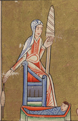 "Eve spinning", folio 8r, detail from the Hunterian Psalter, Glasgow University Library MS Hunter 229 (U.3.2)